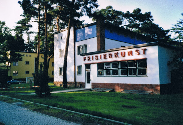 Architecture by Bruno Taut, built between 1928-32, Wilskistr. corner Riemeisterstraße, Berlin